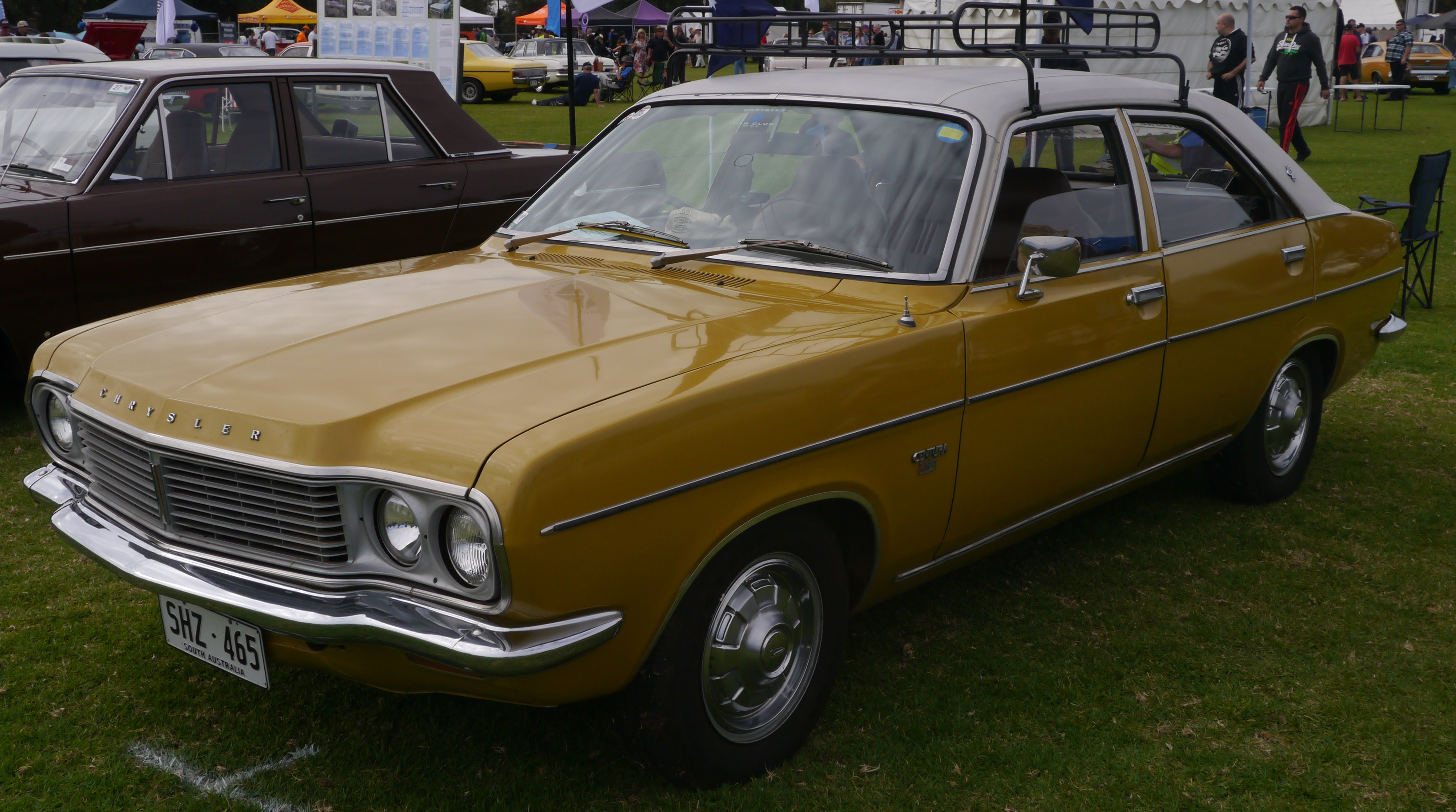 Australian built Chrysler Centura, which was closely related to the European Chrysler 180.